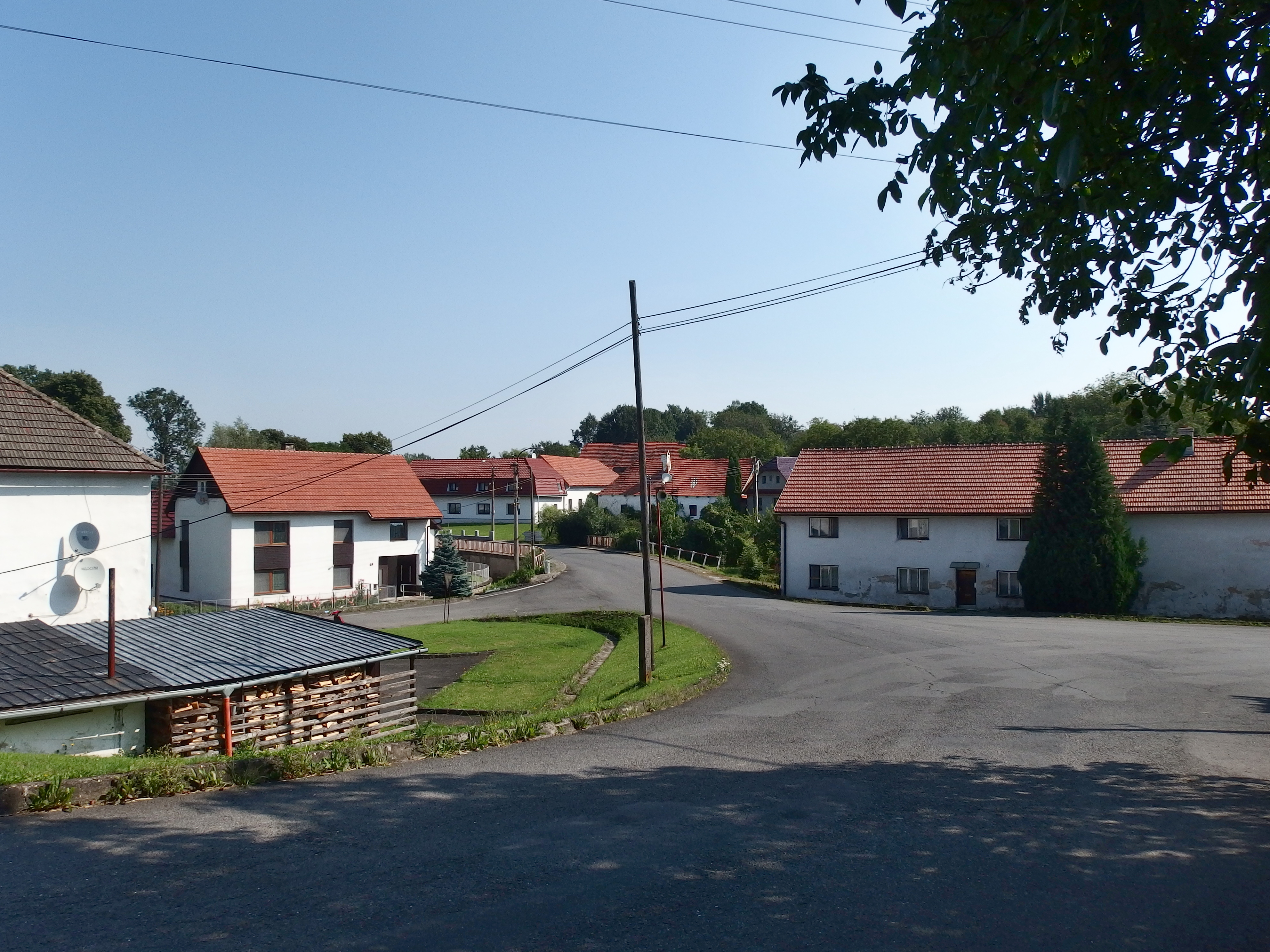 Kelč, Vsetín District, Czech Republic, part Babice.